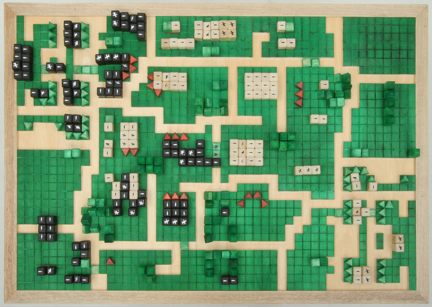 A reconstruction of a chess-like wargame developed by Johann Christian Ludwig Hellwig 1780. Reconstruction by Rolf Nohr, photograph by Ralf Wegemann.